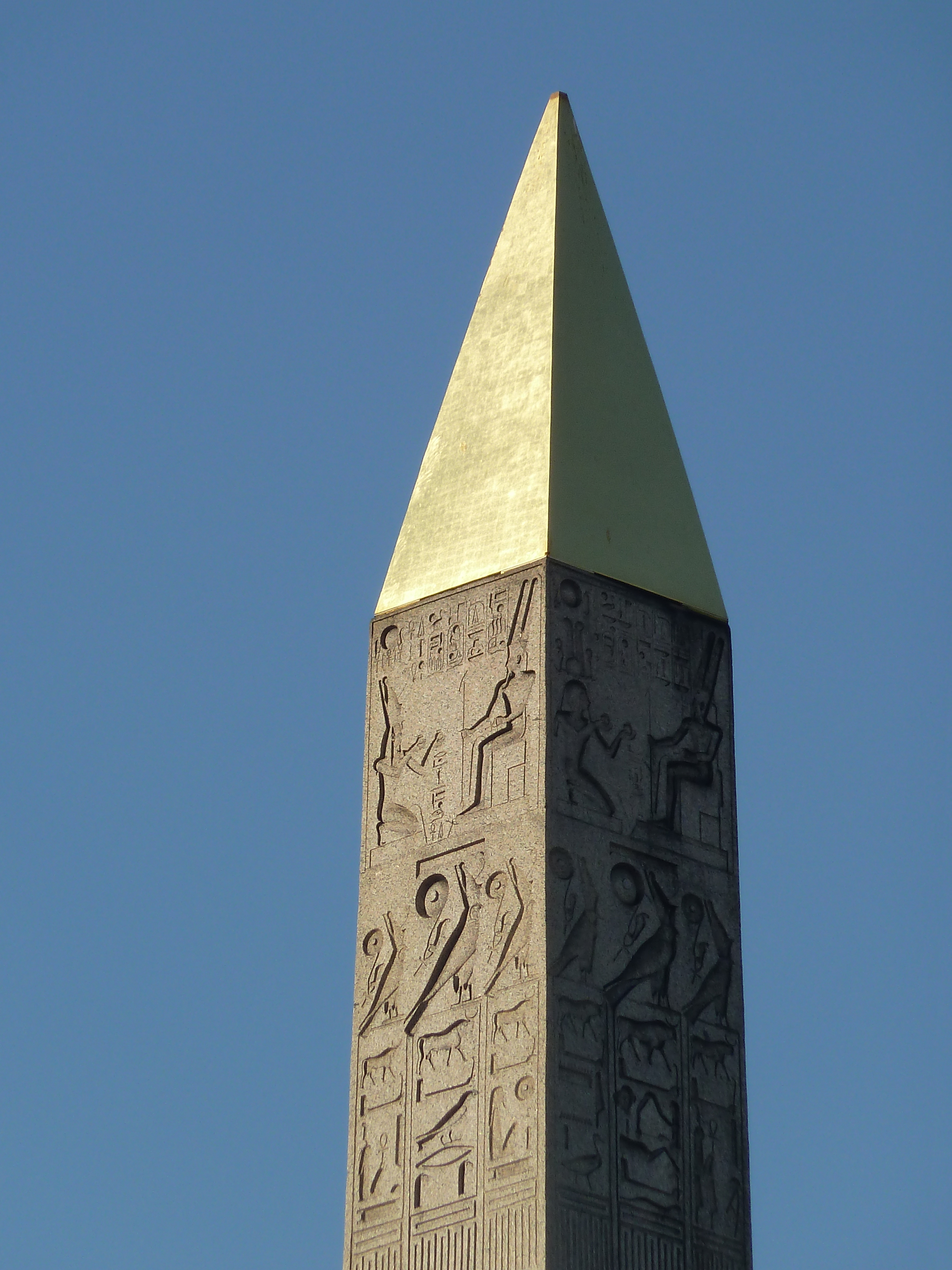 Place de la Concorde - The golden top of the obelisk (June 2011)